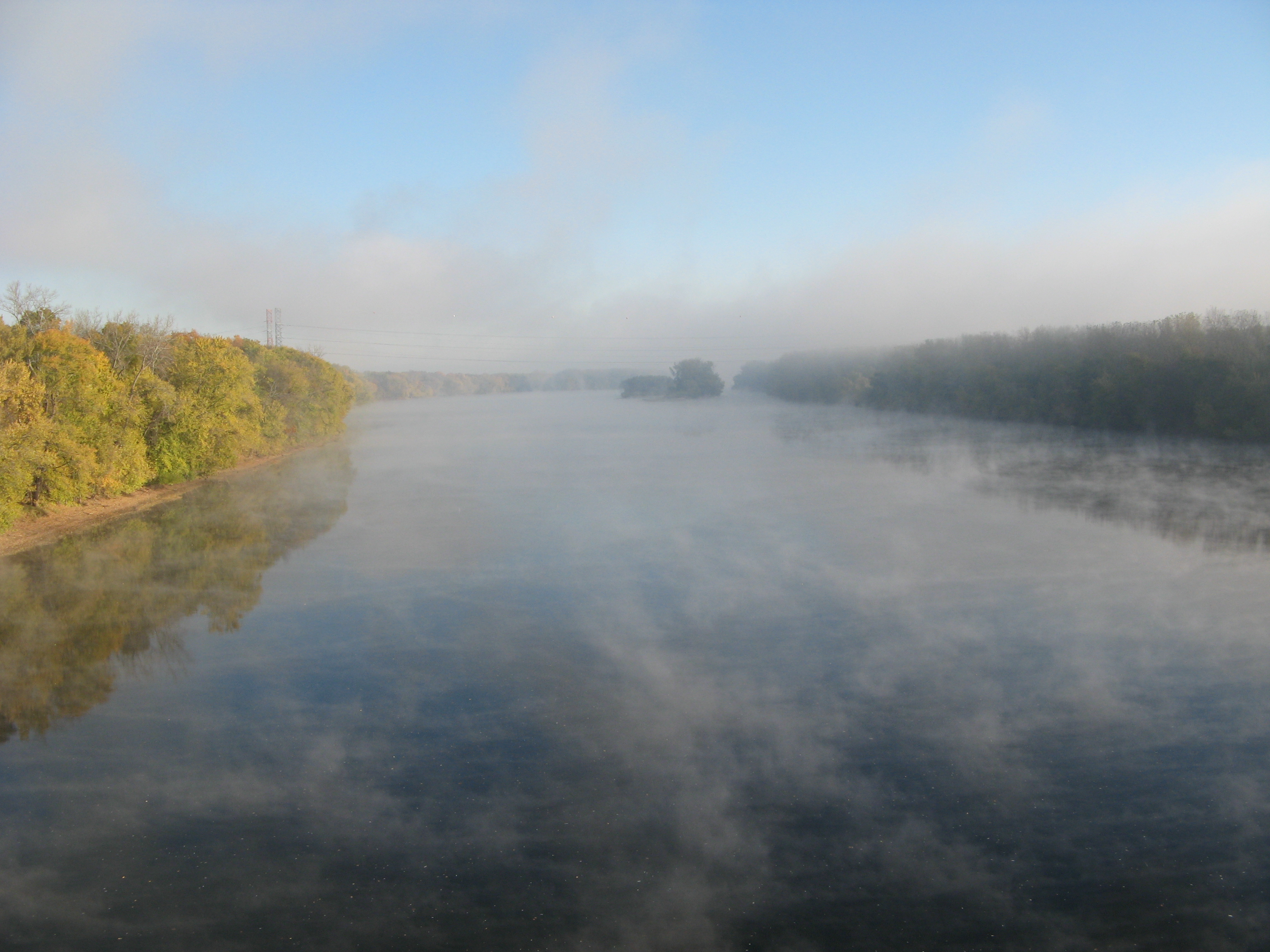 A mist rises over the warm waters of the Connecticut River on a cold October morning. Also visible are electrical pylons and an island. Photo taken from the multi-use path on the north side of the Bissell Bridge.